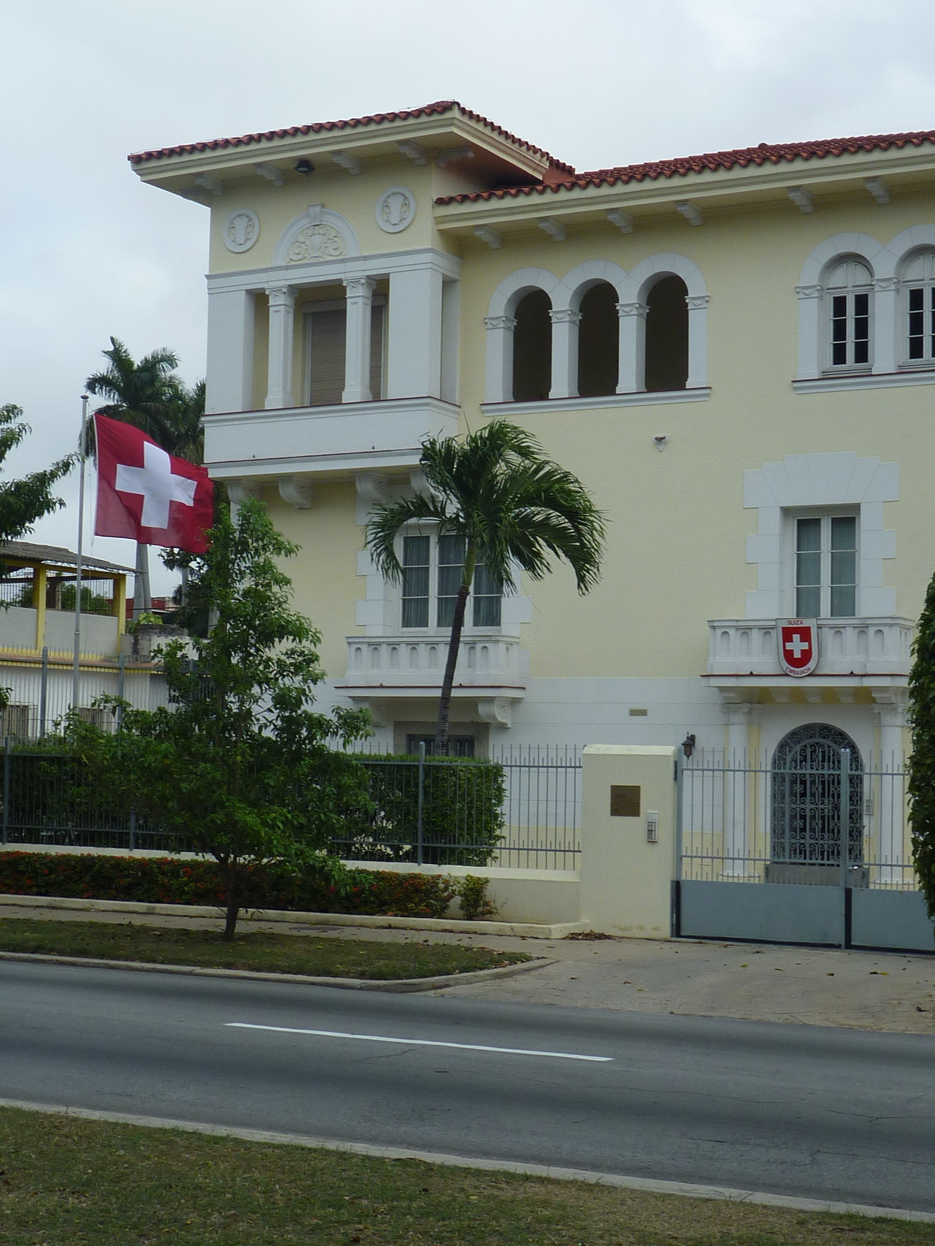 Swiss Embassy in Havana, Cuba